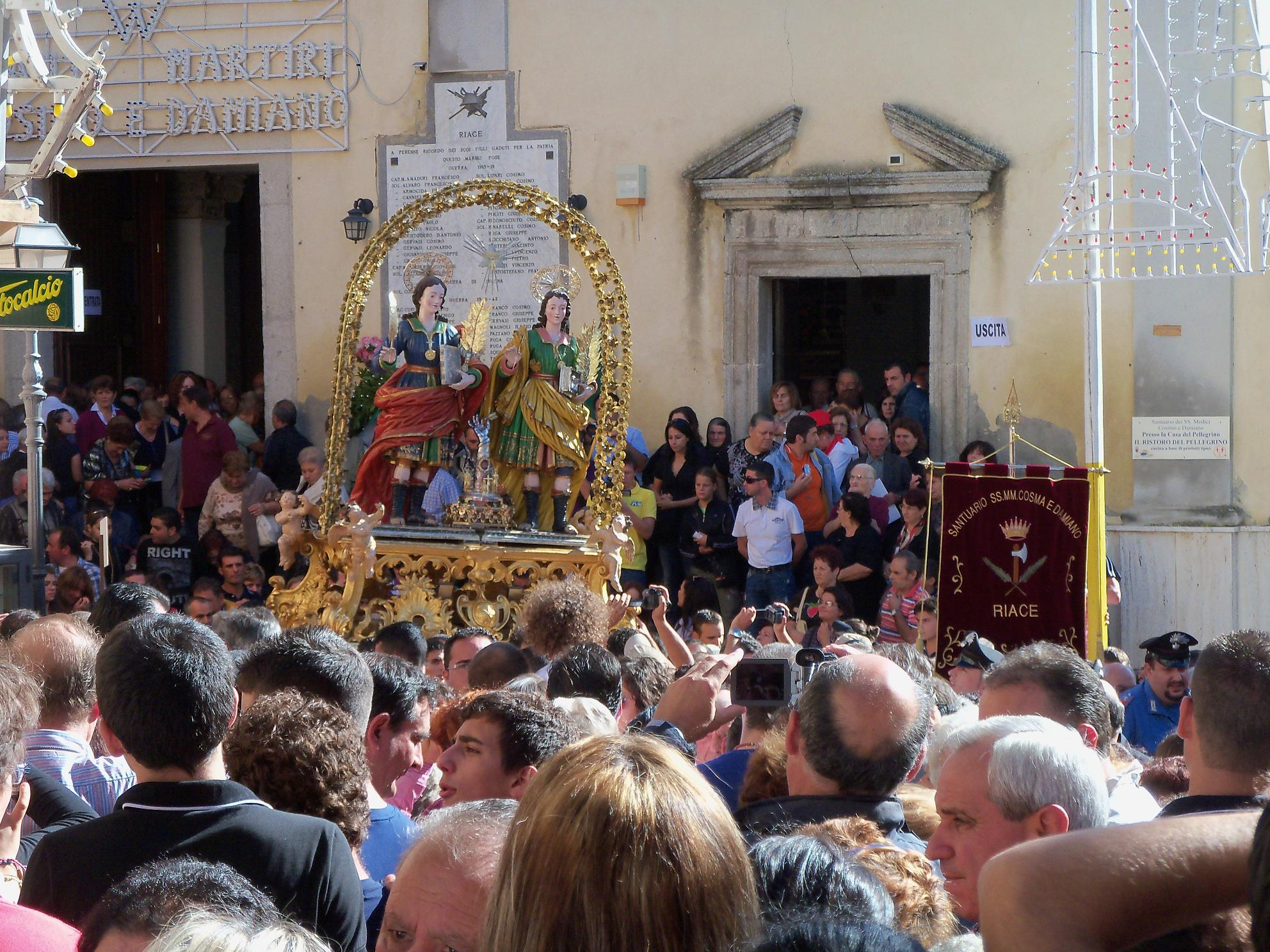 Fiest of Saints Cosma and Damiano 2010 (Riace - Italy)